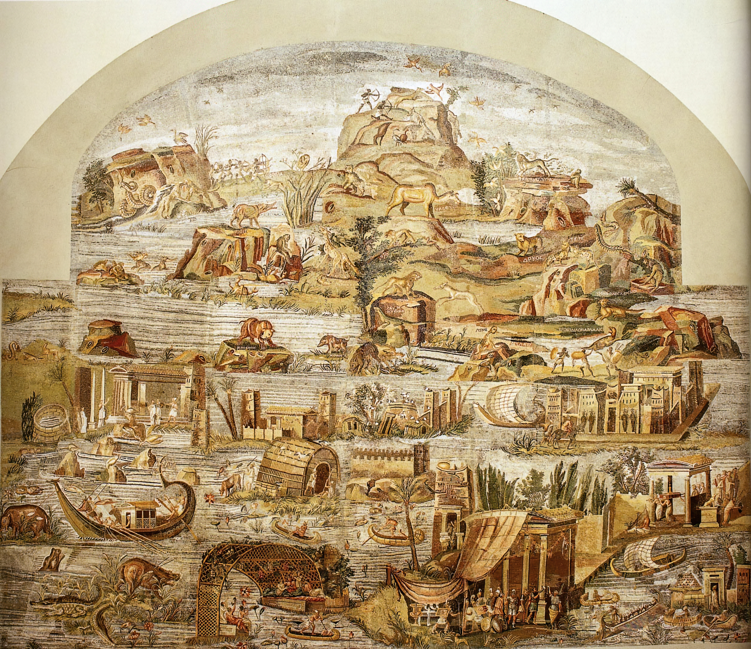 Nile mosaic from Palestrina (present state). Museo Nazionale Palestrina, Italy.